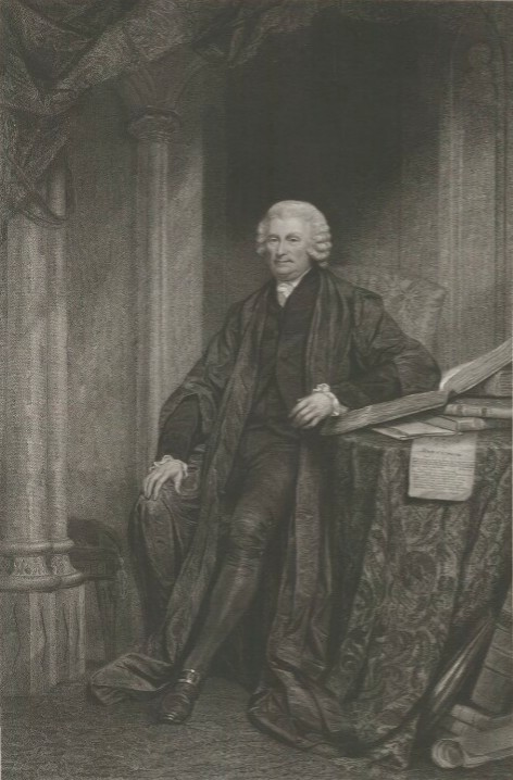 Portrait of John Hatsell (1733–1820)[1], English clerk of the House of Commons.